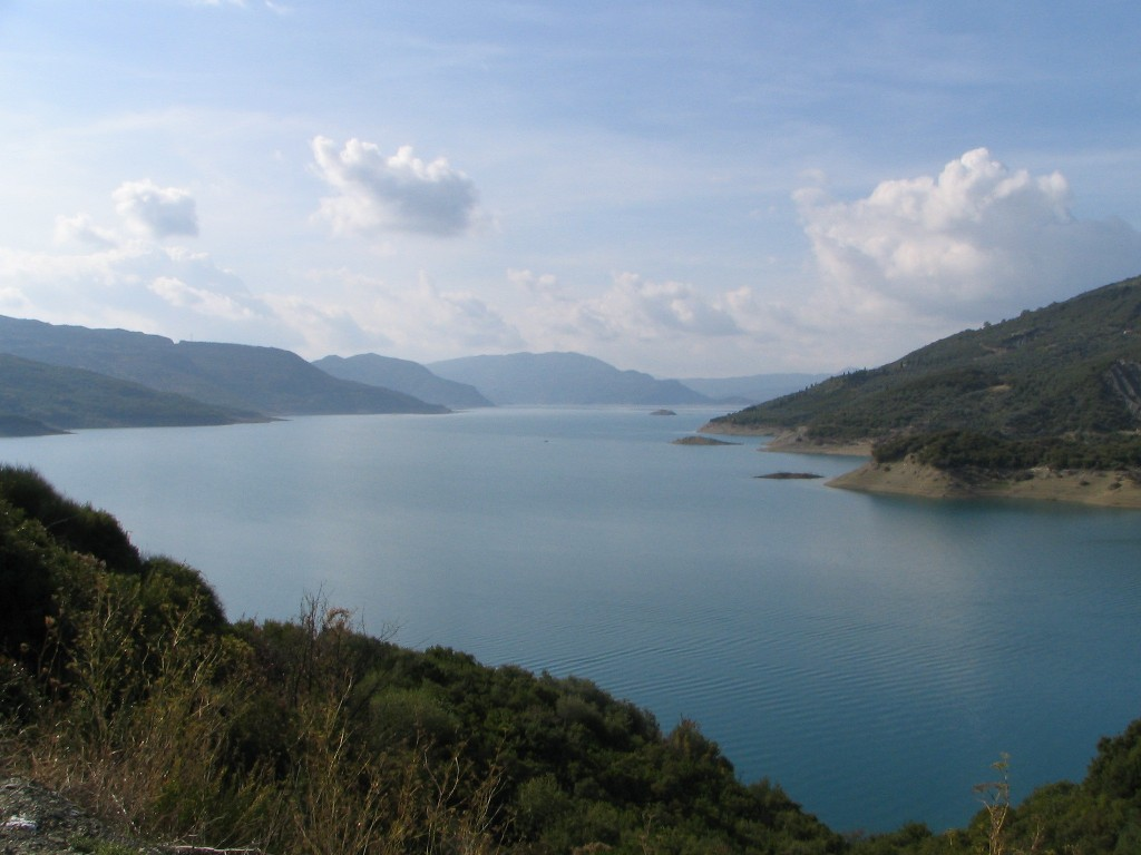 Kremasta.